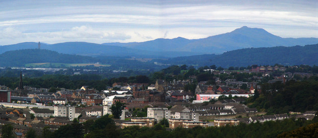 Alloa from Clackmannan Tower. Clackmannan, Clackmannanshire, Great Britain